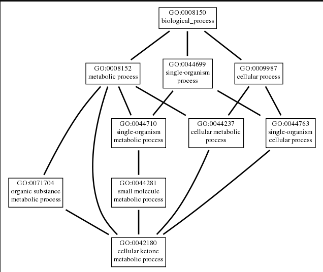 Visualiztion of GO term